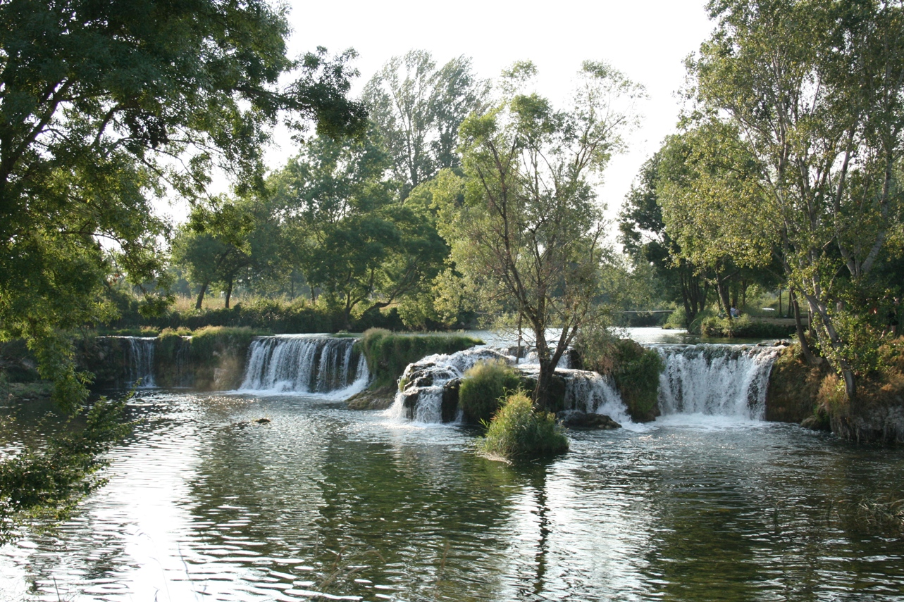 Čeveljuša-Waterfalls in Hrašljani (Ljubuški)